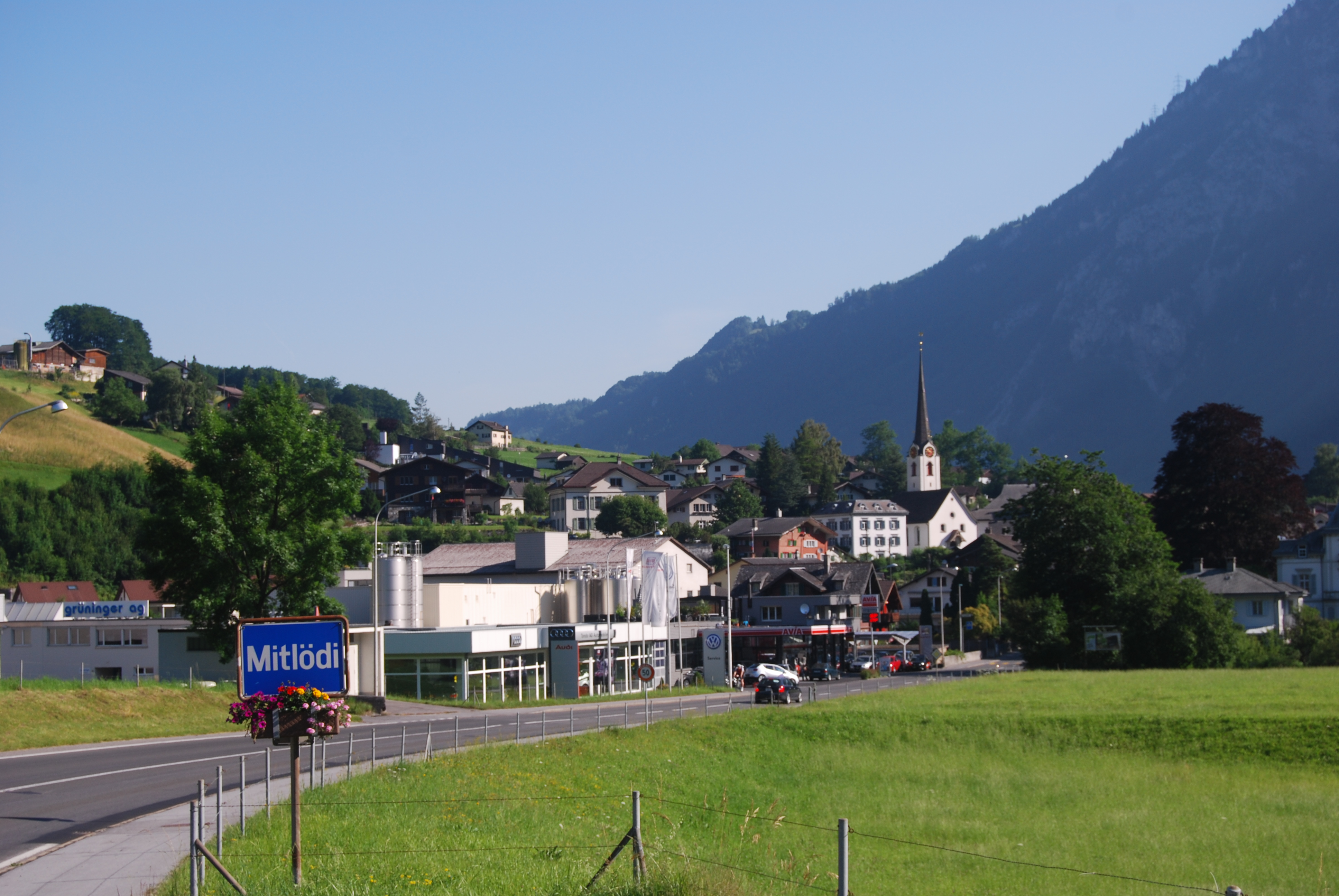 Village entry of Mitlödi, canton of Glarus, Switzerland